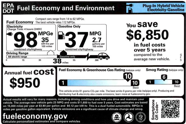 EPA fuel economy and environmental comparison label for the 2013 Chevrolet Volt (Plug-in Hybrid Vehicle)